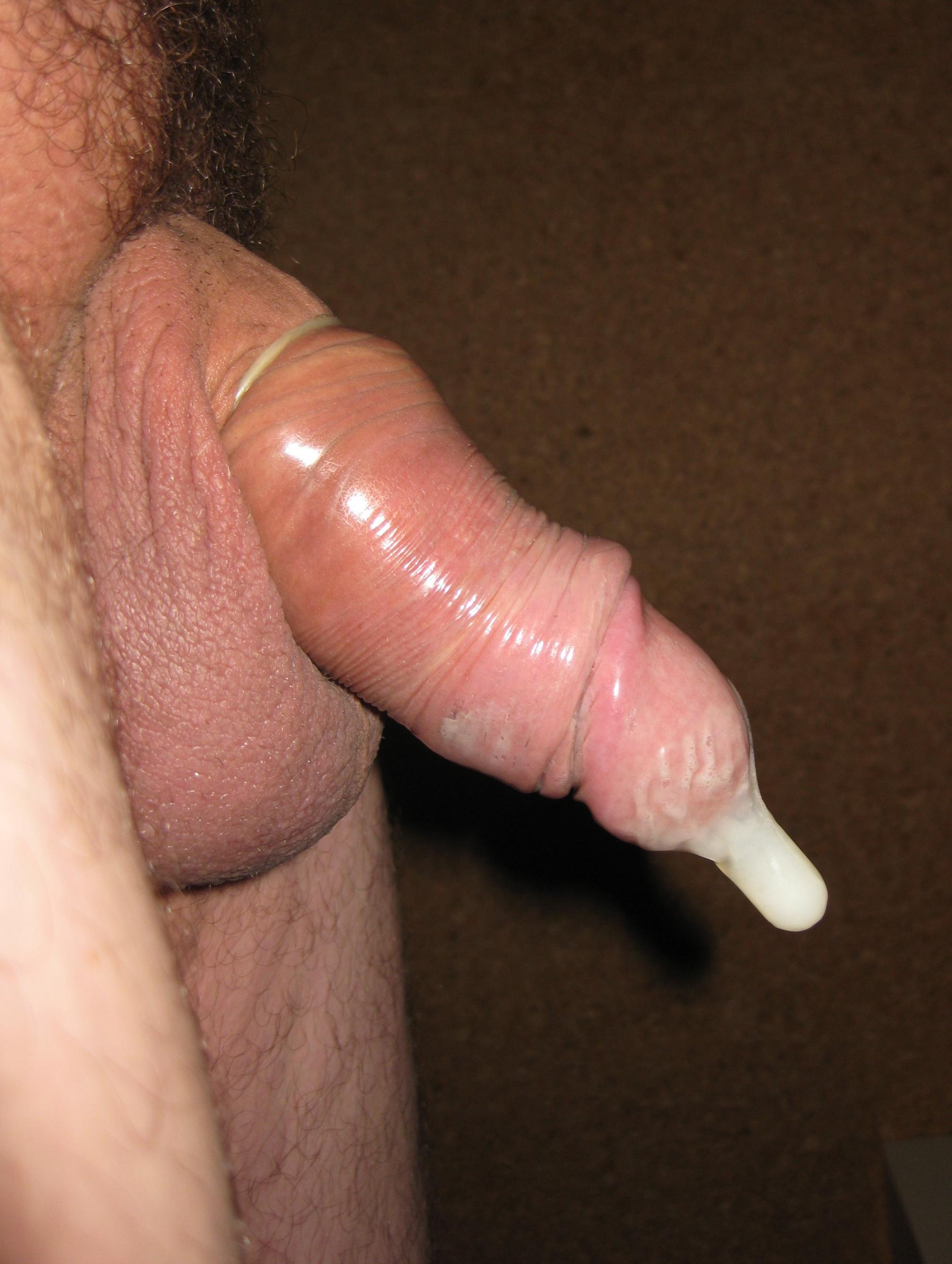 condom usage